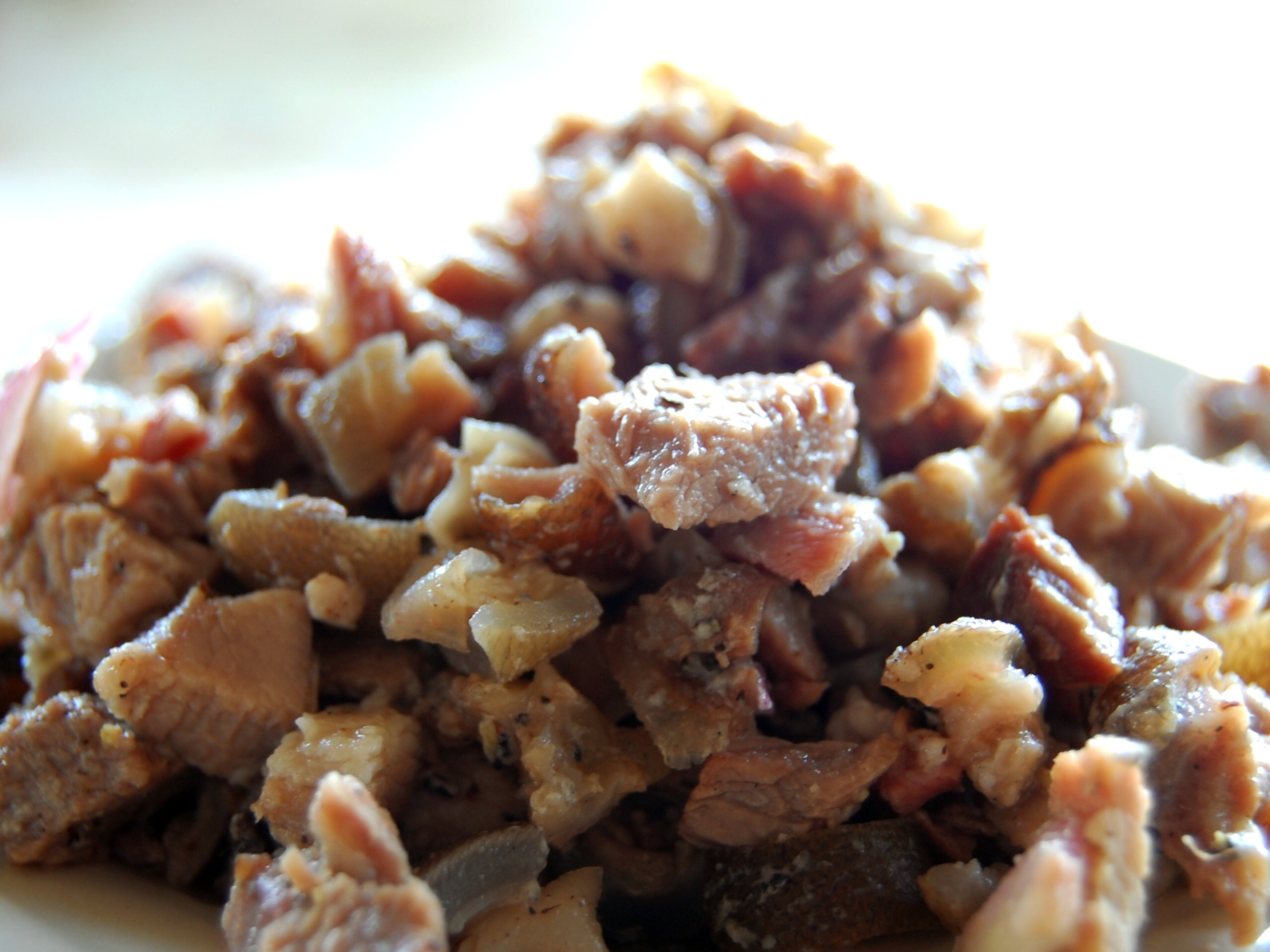 This is the real thing or Ilocano way of the kilawen: goat skin and meat just after the pulpog (i.e. burning off the hair through fire), sliced into smaller pieces ala sisig, cooked in basi or ilocano vinegar and finely chopped fresh onions and ginger, seasoned with salt and pepper, and spiked with calamansi. A Tagalog variation is called kapukan where the meat is boiled before being prepared, which actually defeats the purpose of the kilawen. Nikon D40 (MVI 2009 Archive)